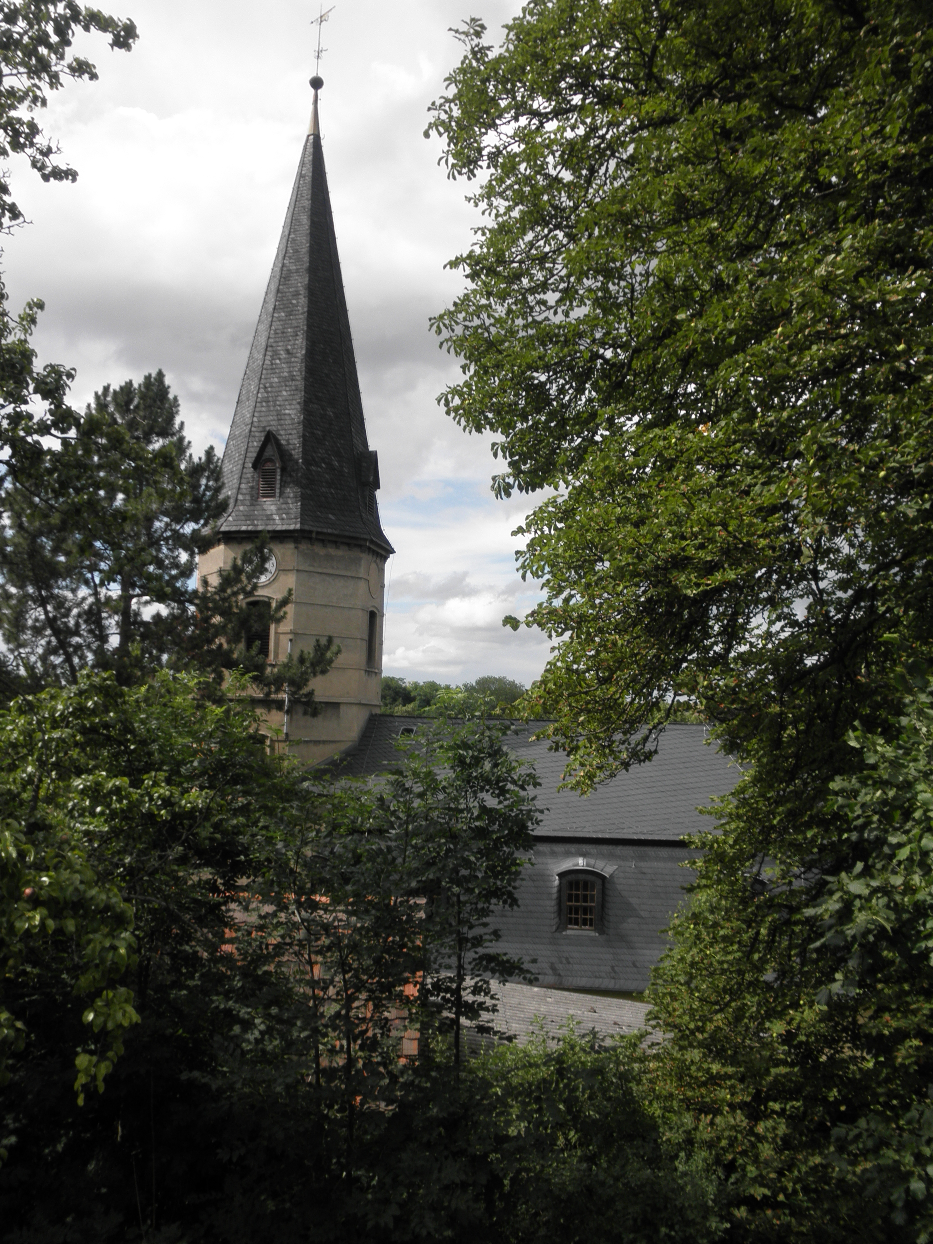 Church in Flurstedt (Bad Sulza) in Thuringia